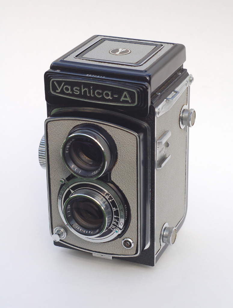 Japanese TLR circa 1959 with gray covering (more common in black). Focus is achieved via the knob on the left side of the camera. When you turn it, the entire front of the camera moves in and out.